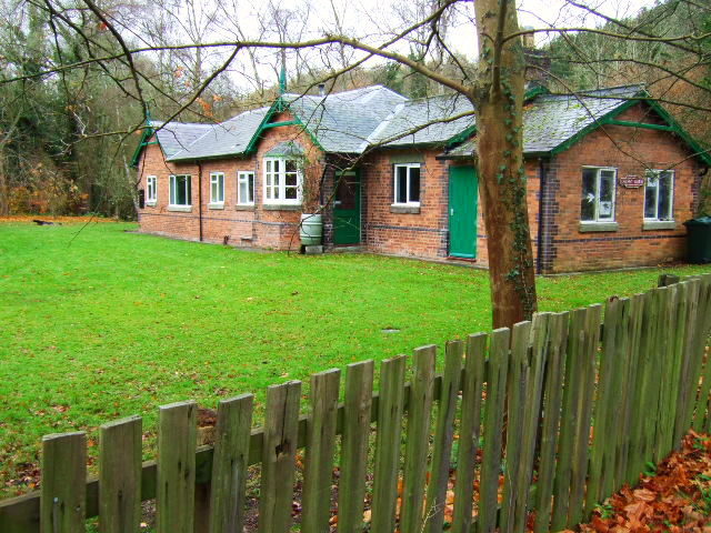 Horderley Railway Station The former railway station, now converted into a house.